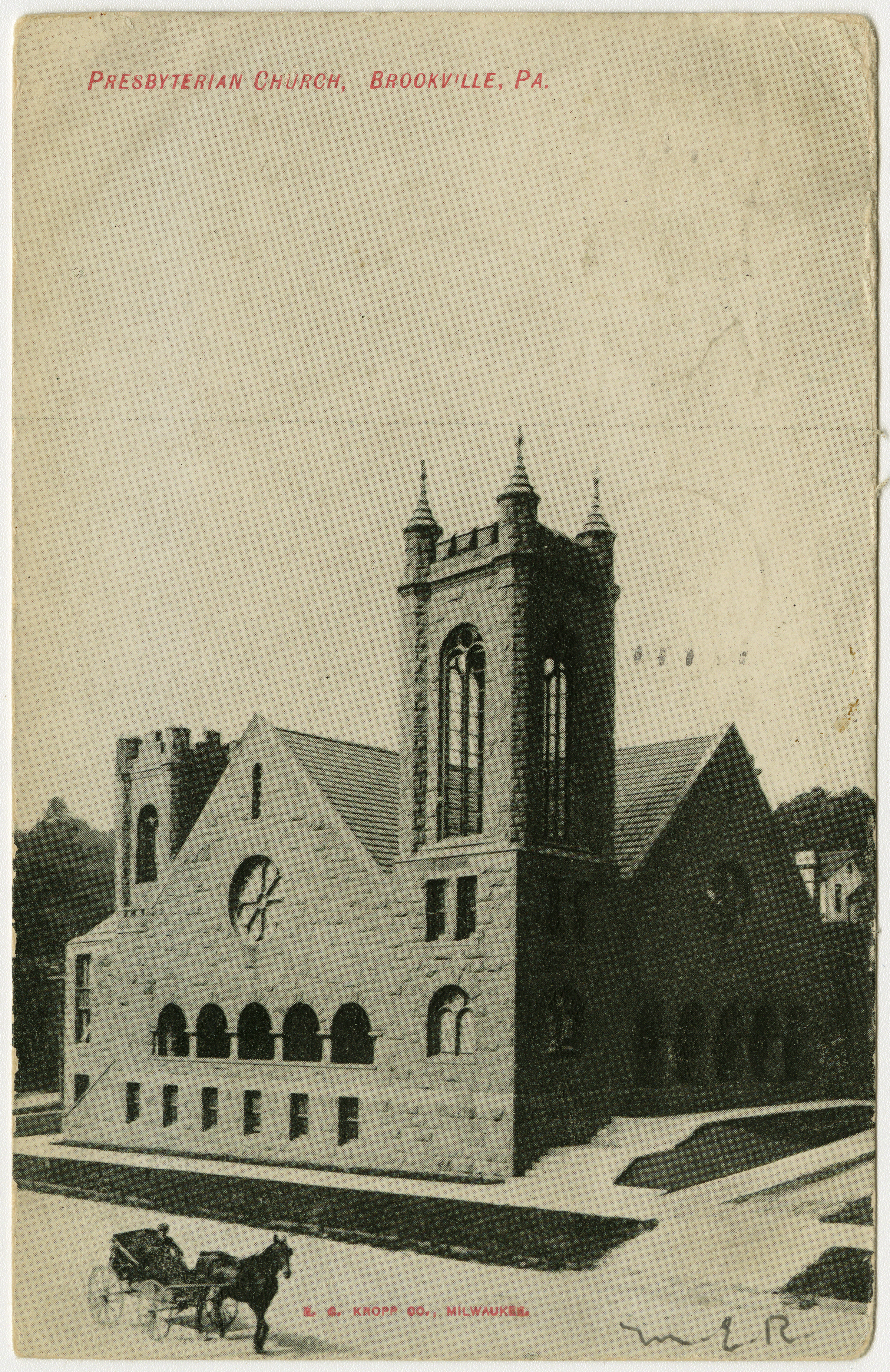 Postcard of a Presbyterian church from the collections of the Presbyterian Historical Society. This is the Presbyterian Church in Brookville, Pennsylvania. From RG 428, Postcard Collection, Presbyterian Historical Society, Philadelphia, Pennsylvania.